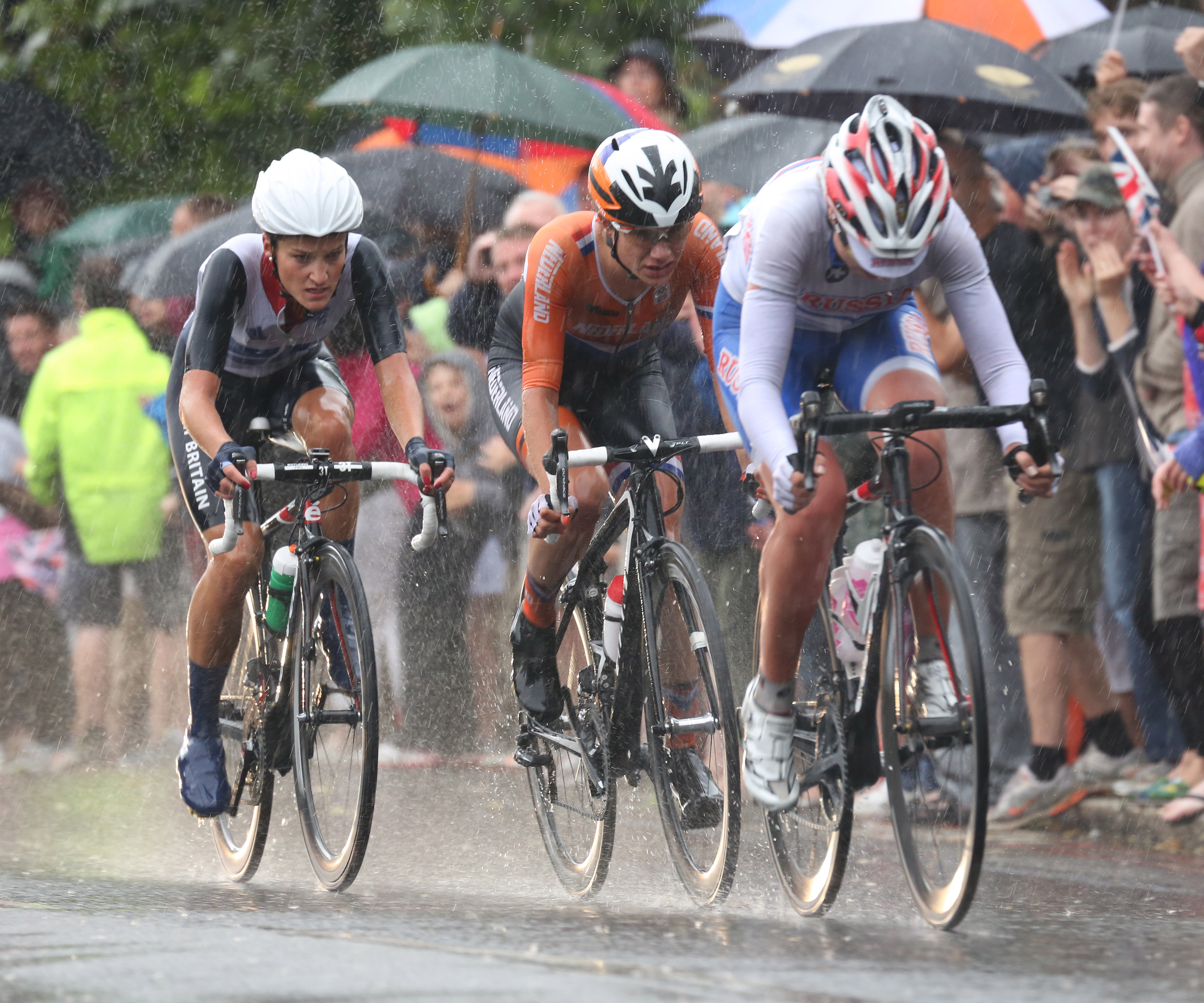 The three medal winners of the Womens Olympic Road Race in London as they pass by Upper Richmond Road in South West London, approximately 10km from the finish. From left to right: Lizzie Armitstead, Marianne Vos and Olga Zabelinskaya.